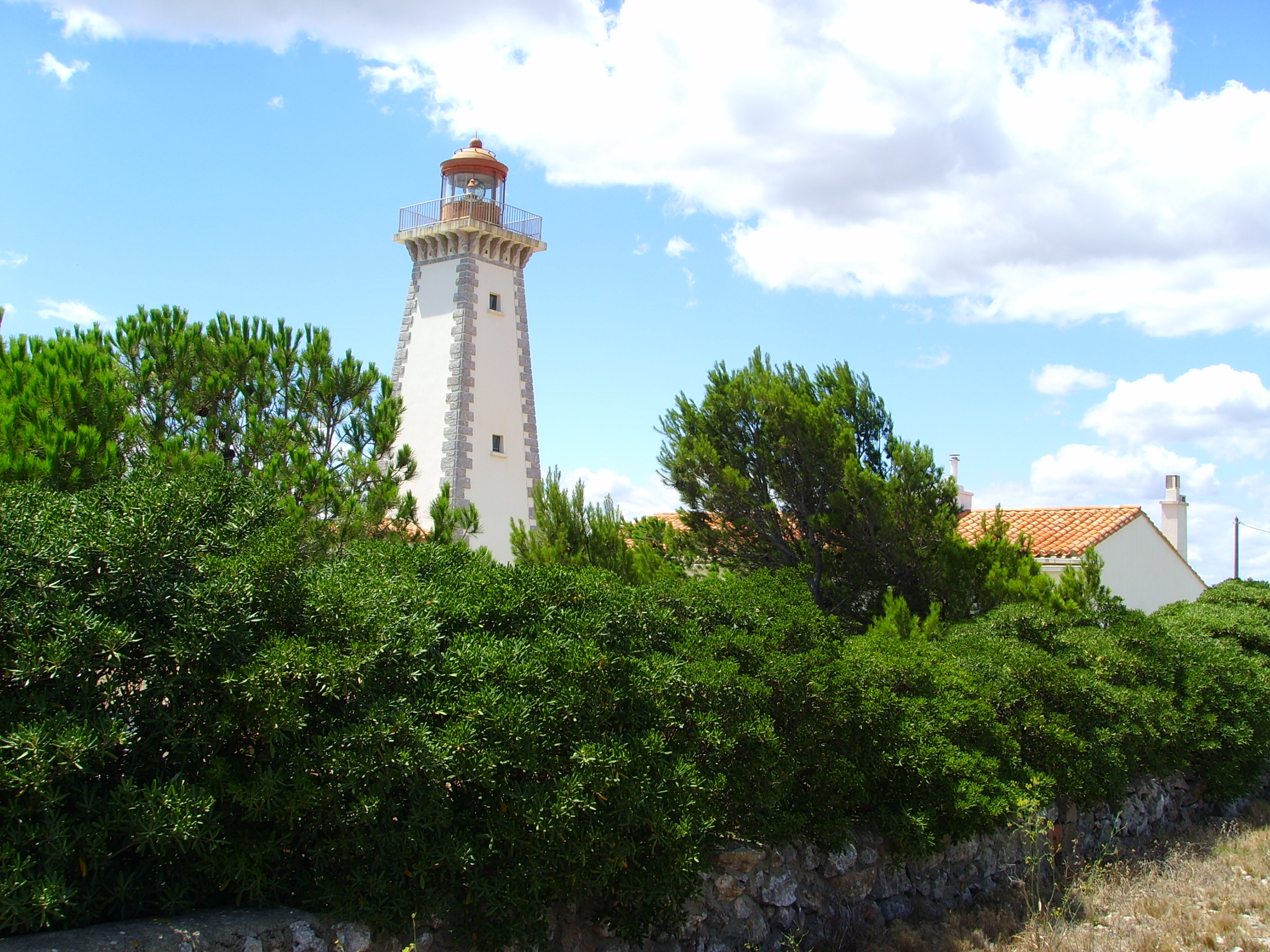 Leucate, Aude, France: Cap Leucate, light house photographer: Gerbil, summer 2006